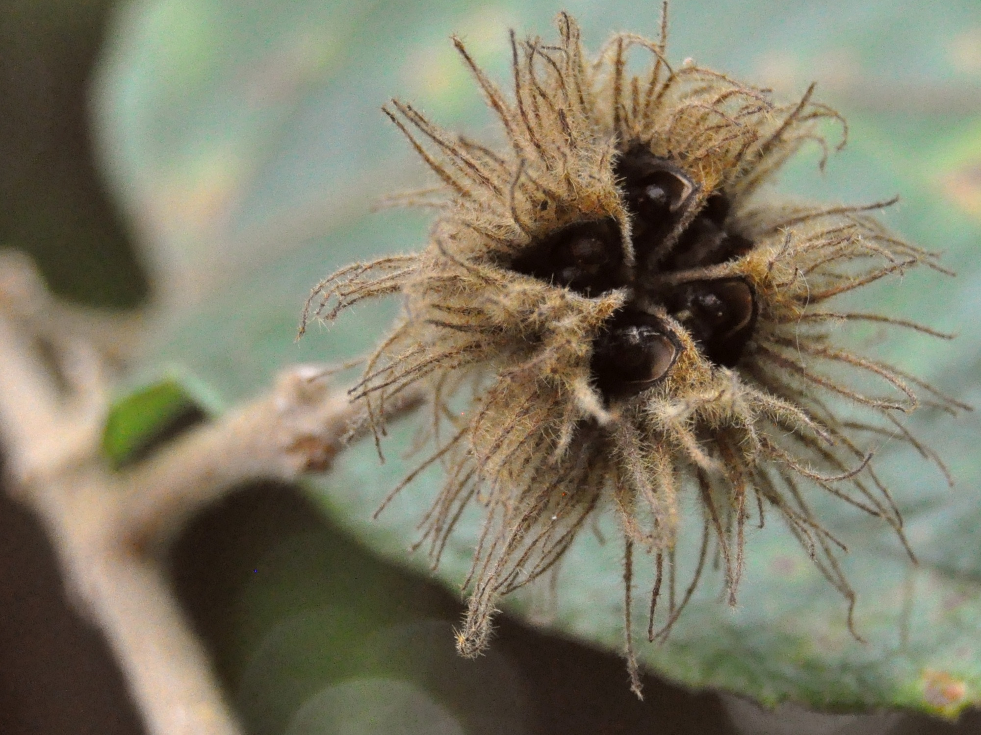 Commersonia bartramia; opening fruit (capsule). From Bogor, West Java, Indonesia.